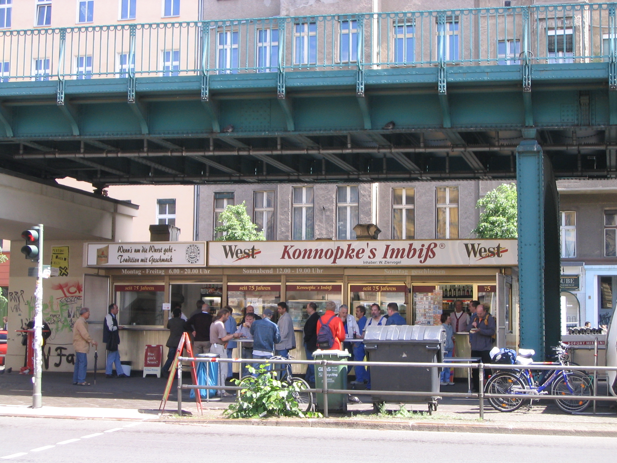 "Konnopke’s Imbiß" in Berlin-Prenzlauer Berg